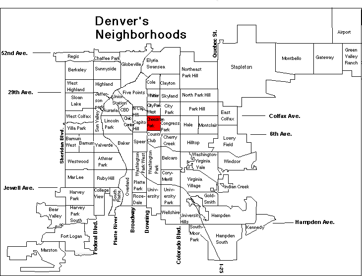 Highlight of the Cheesman Park Neighborhood, Denver, Colorado